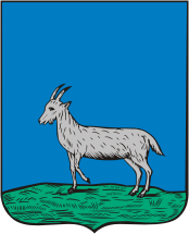 Samara (Samara oblast), coat of arms (1780)